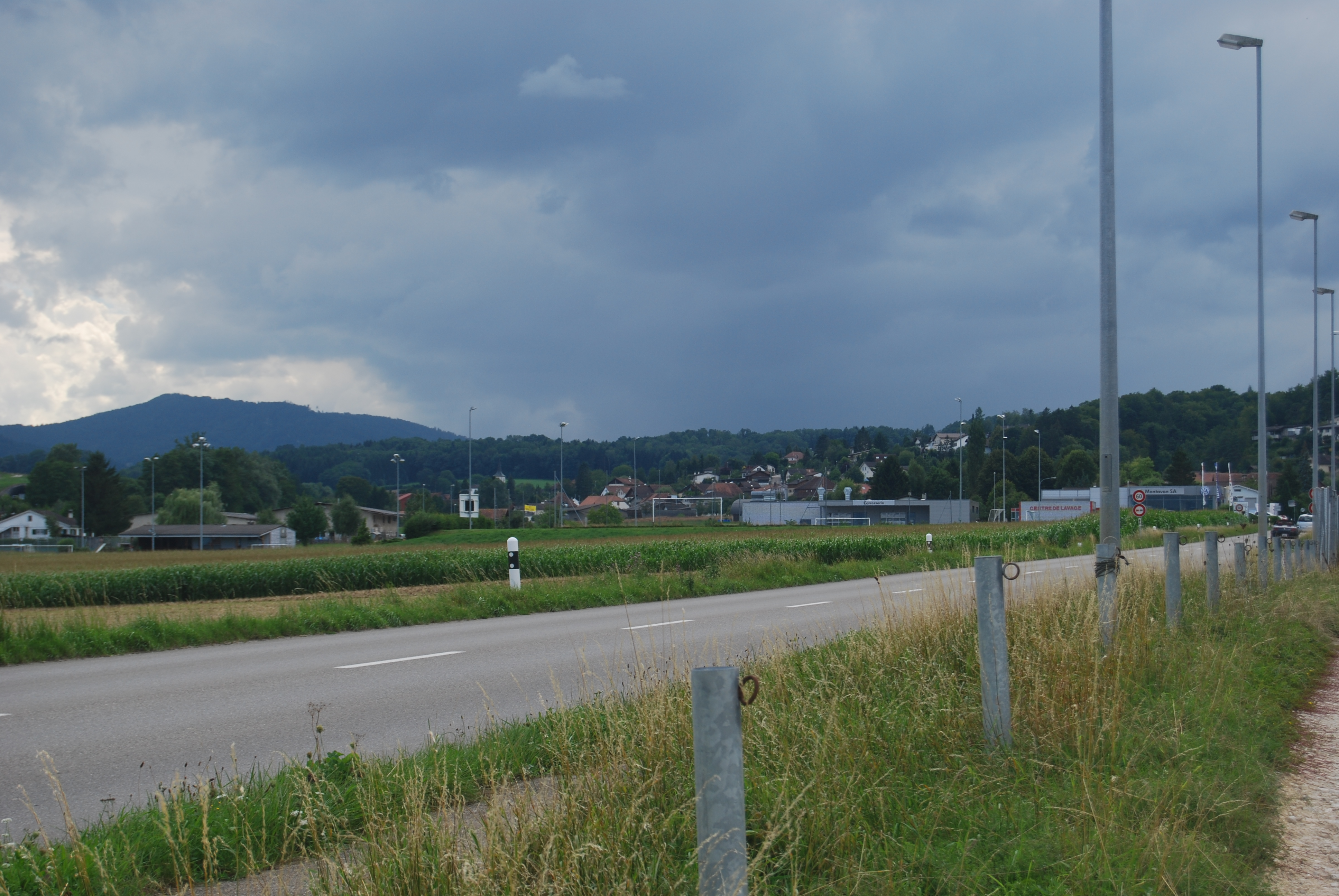 Devilier, canton of Jura, Switzerland